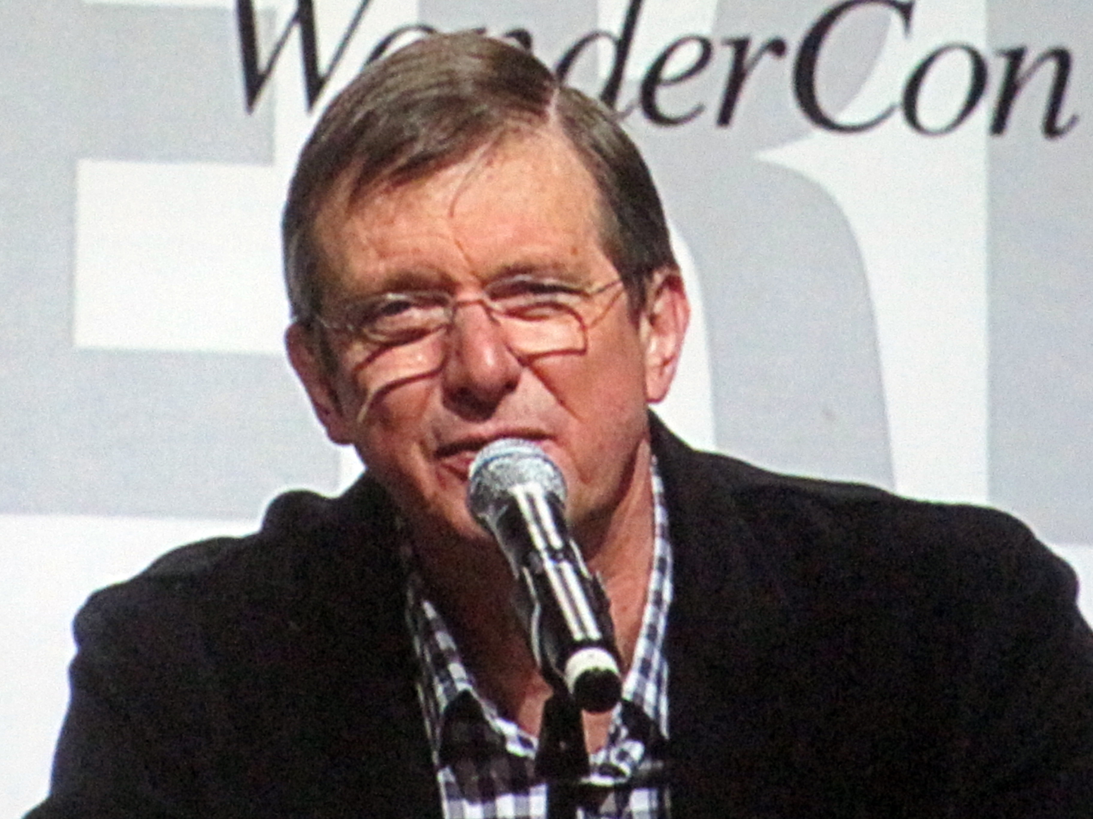 Mike Newell, director of Prince of Persia: The Sands of Time, discusses the film at a panel at WonderCon 2010.